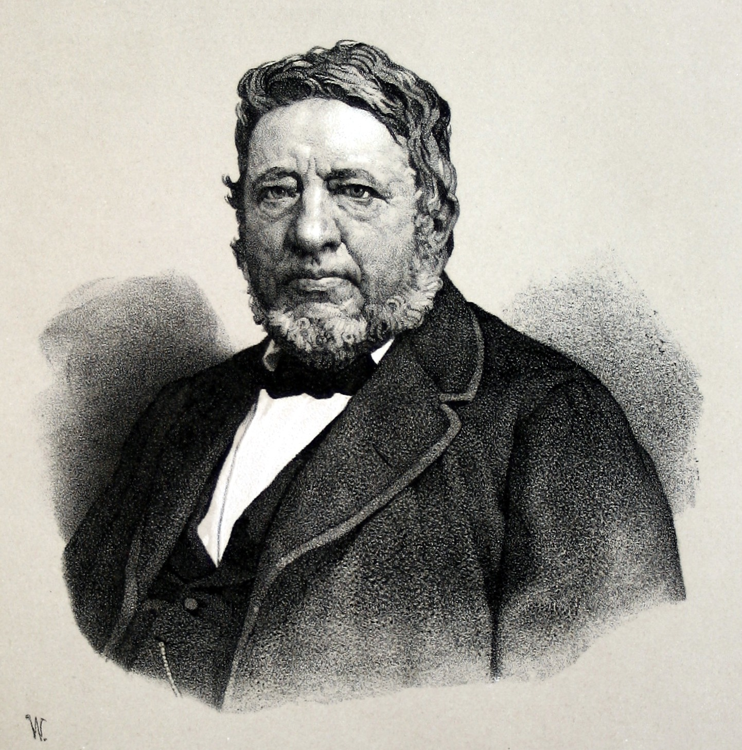 Portrait of Jacob von Leesen (here called James) from the book "Svenska industriens män" (1875)